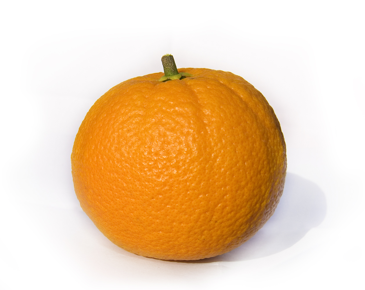 Washington Navel Orange fruit